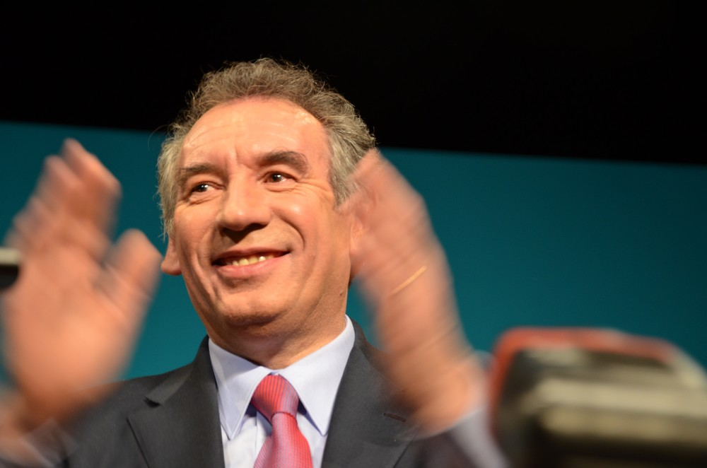 French presidential candidate François Bayrou at a rally in Toulouse